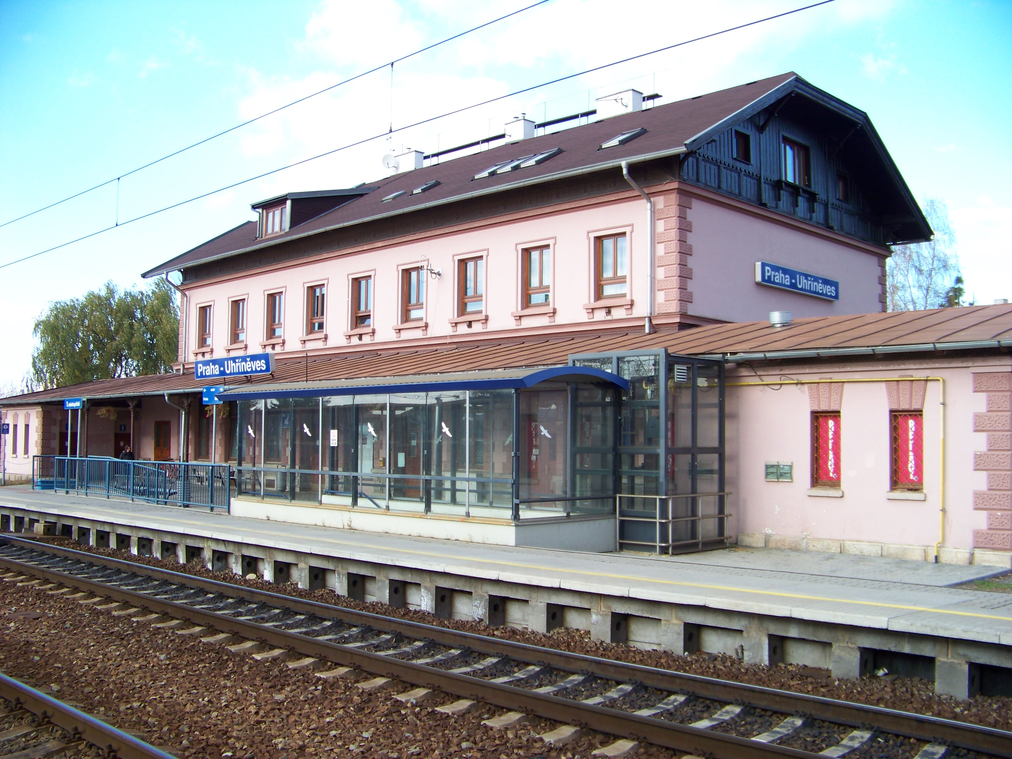 Prague-Uhříněves. The train station "Praha-Uhříněves".